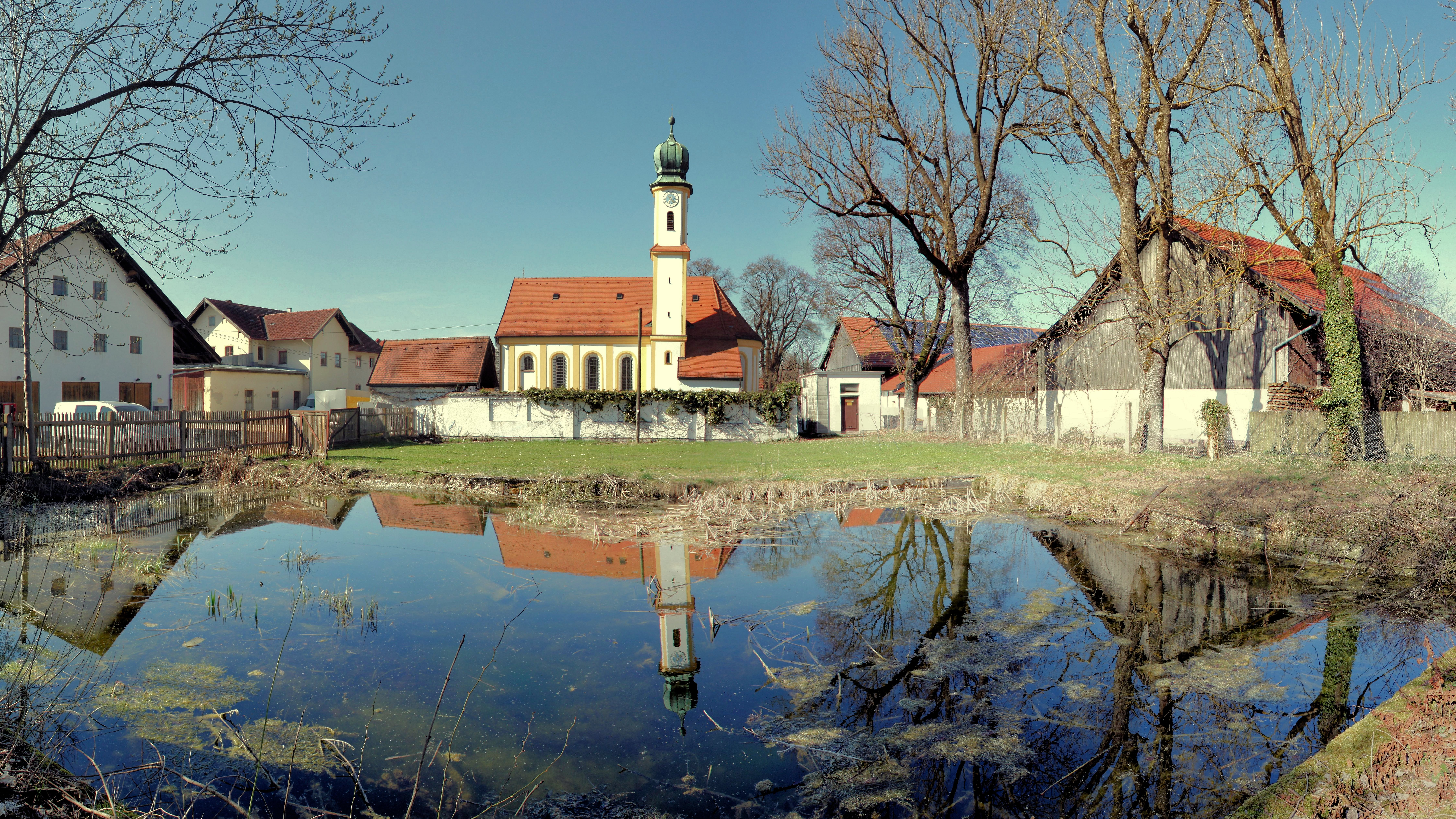 Unterbiberg with St. George church and pond in early springtime (view from south).